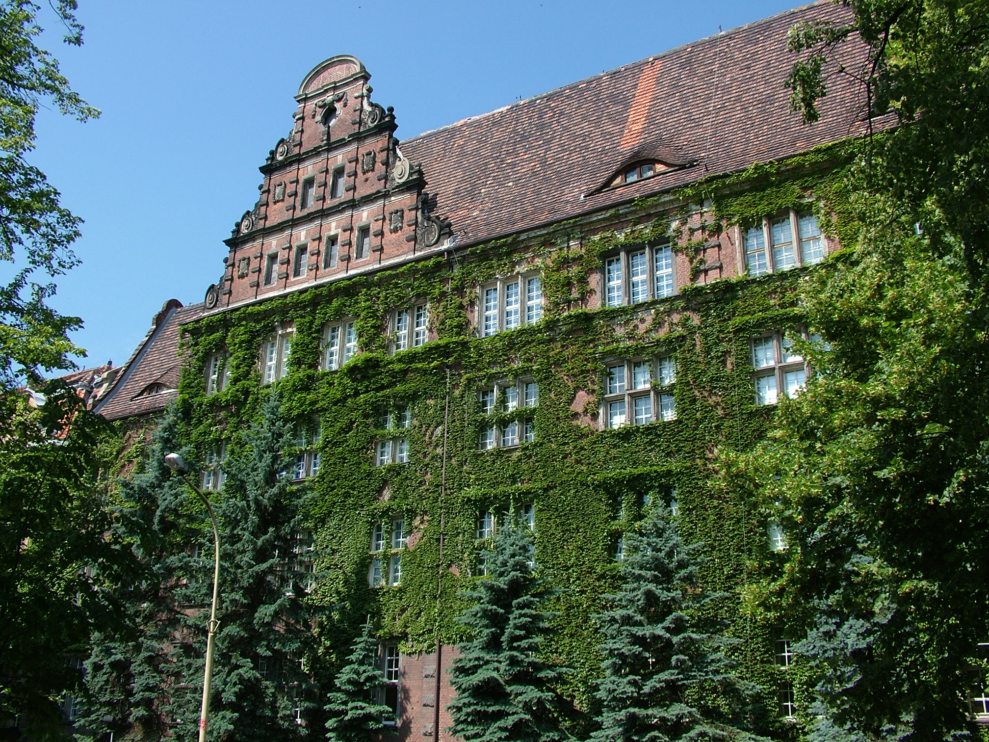 Marine Academy in Szczecin.